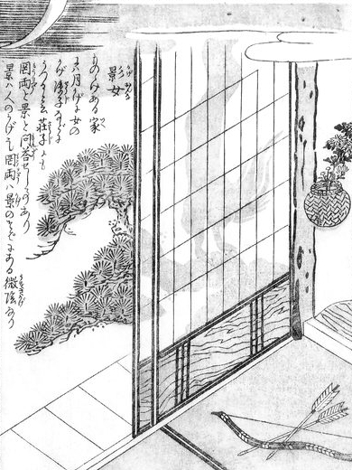 Kage-onna (影女, the shadow of a woman cast on the paper doors of a haunted house) from the Konjaku Hyakki Shūi (今昔百鬼拾遺)